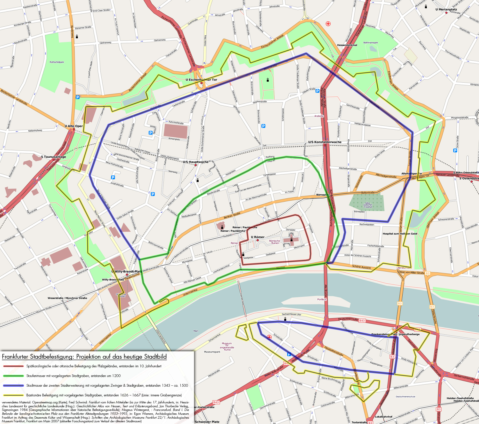 Frankfurt on the Main: Projection of the former fortification onto today's cityscape